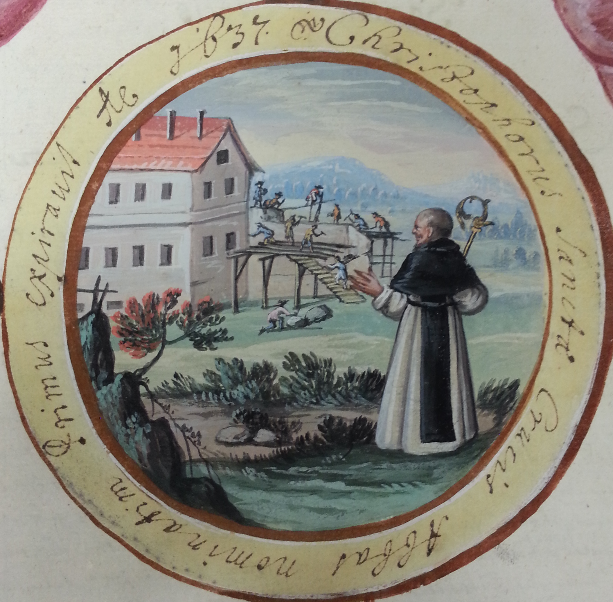 Christoph Schaeffer 01